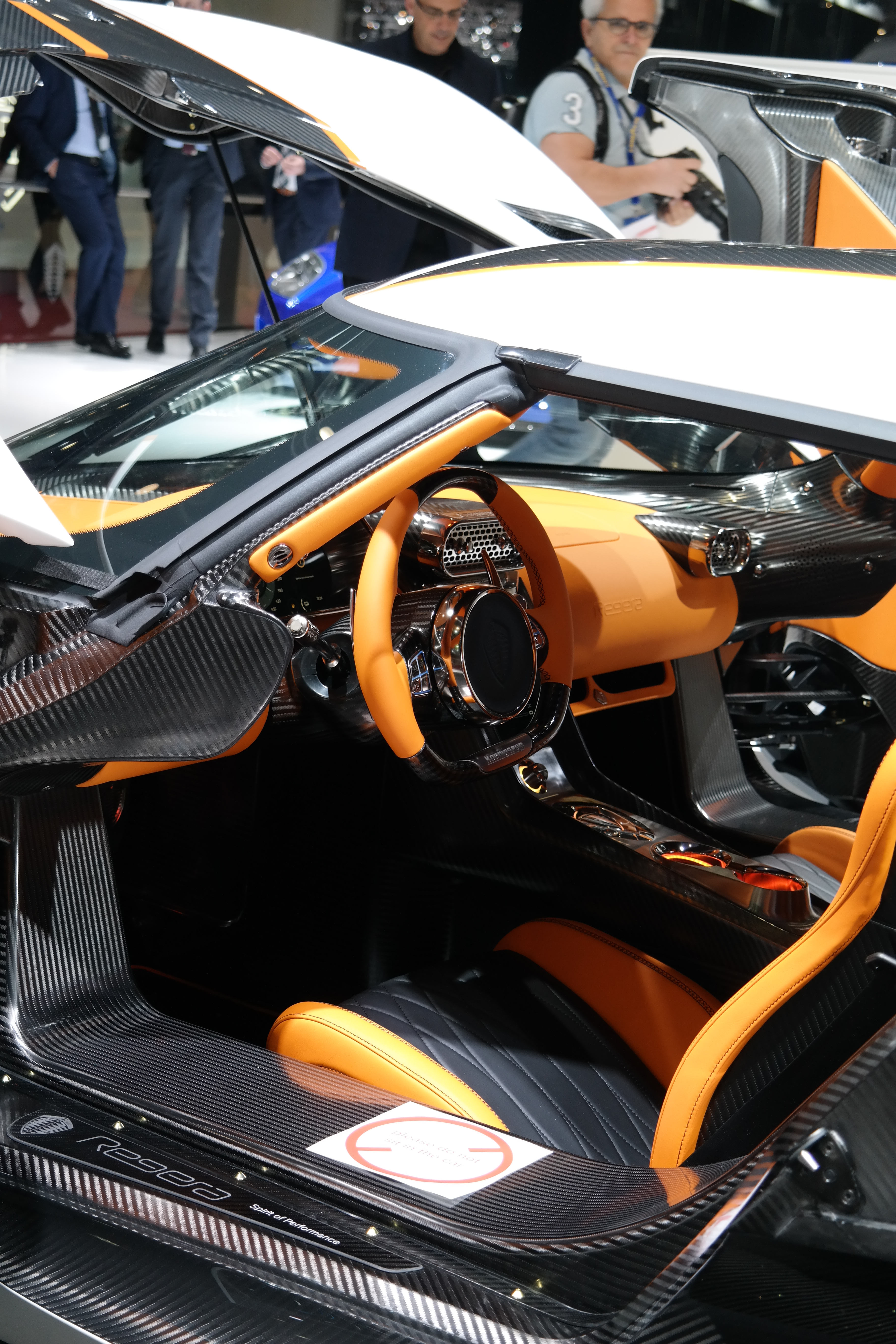 Geneva Motor Show 2018 (photo taken on the first press day)